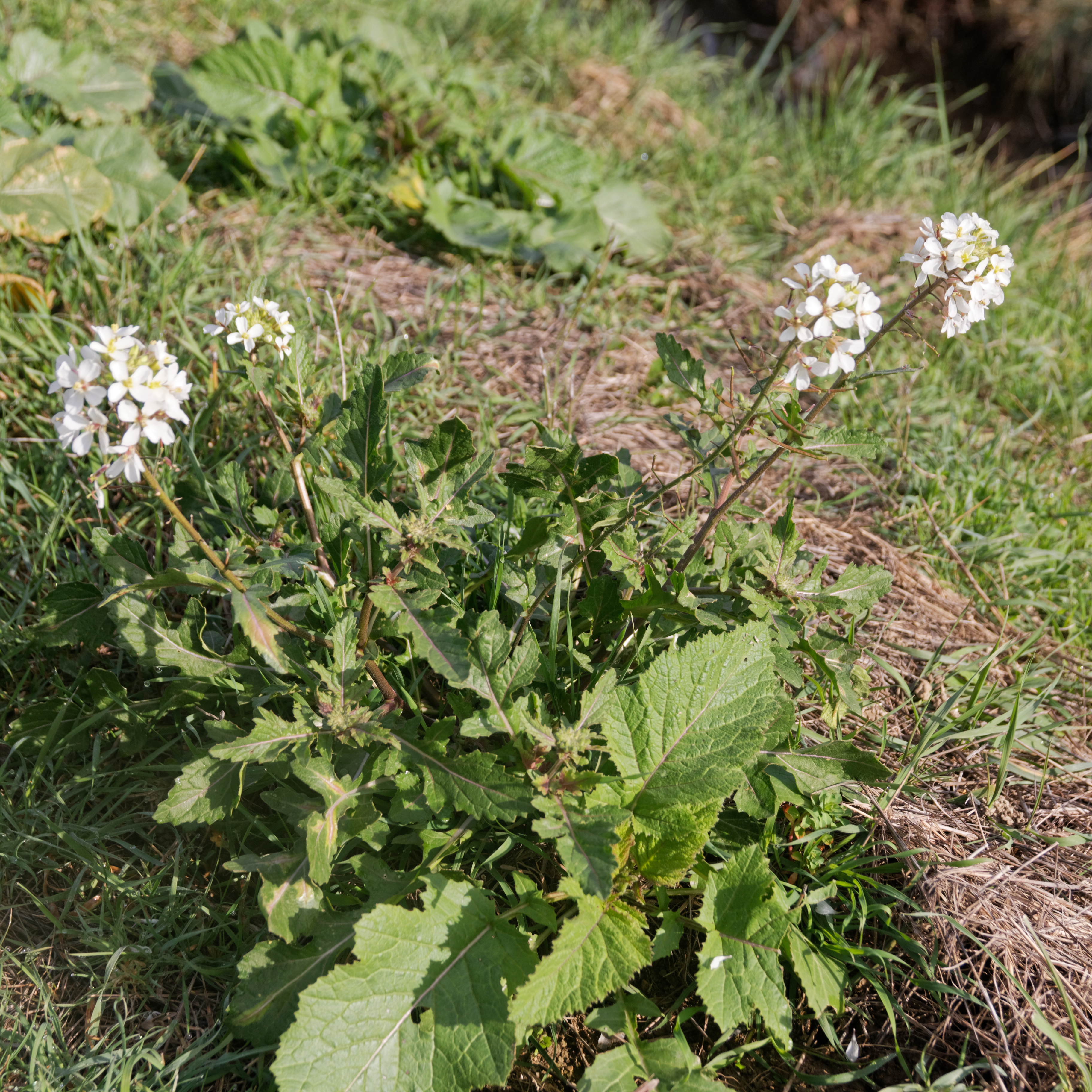 Plant of white rocket